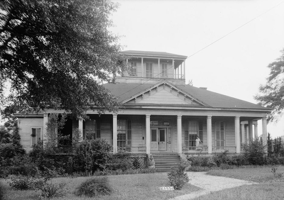 Lewis Llewellyn Cato House, 823 West Barbour Street, Eufaula, Barbour County, AL. FRONT AND SIDE VIEW, NORTHEAST. HABS ALA,3-EUFA,7-1.